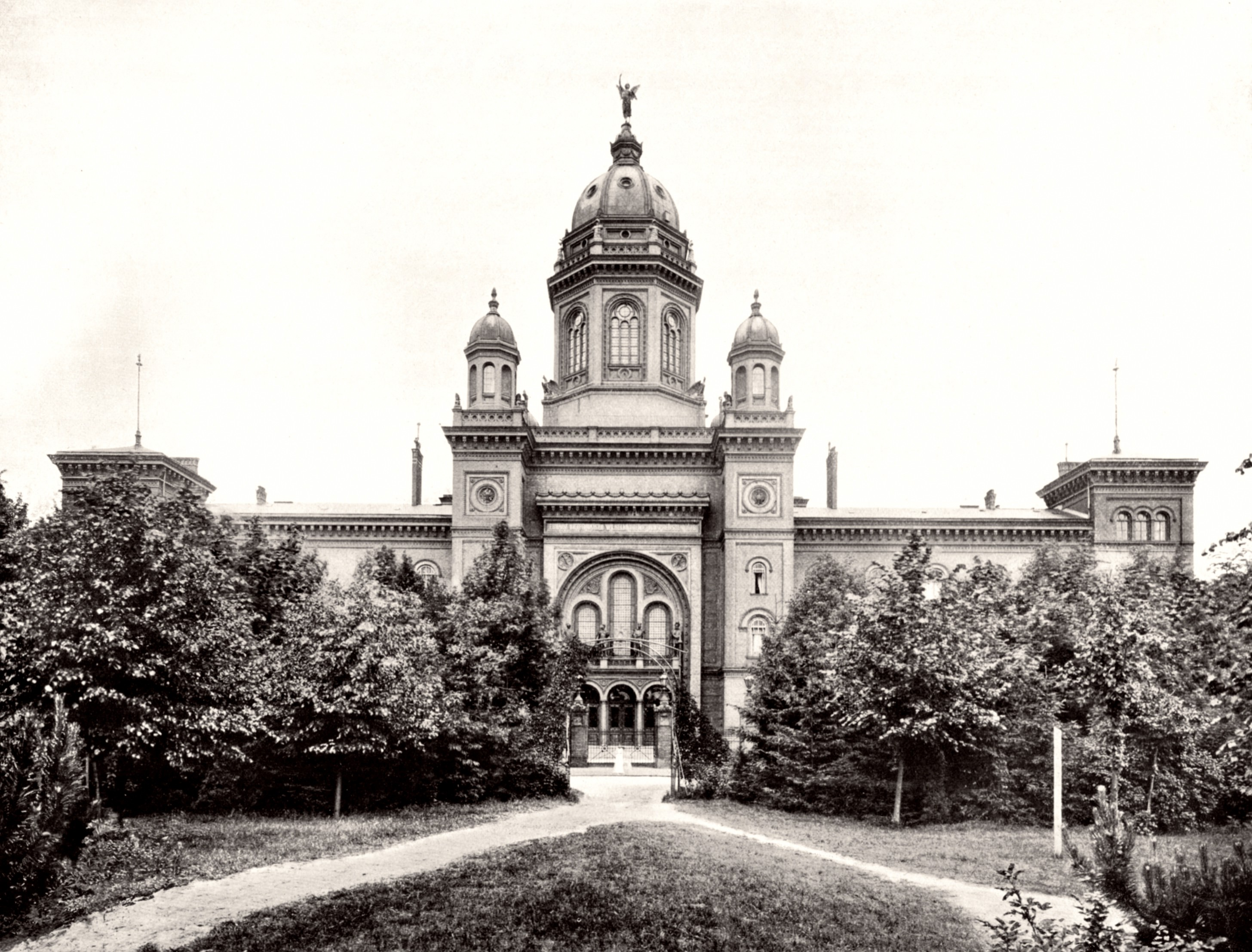 Berlin - Royal (Prussian) Hauptkadettenanstalt in Lichterfelde around 1900